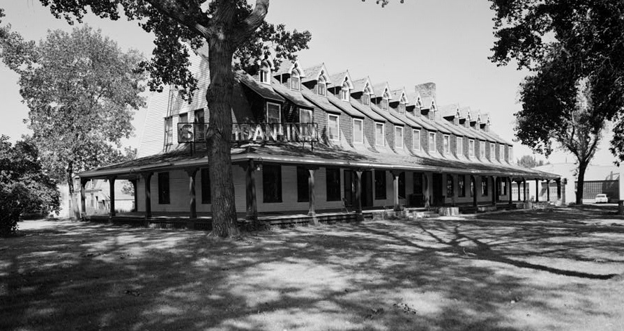 Sheridan Inn, Sheridan (Sheridan County, Wyoming) (cropped). Image courtesy of Historic American Buildings Survey—HABS.